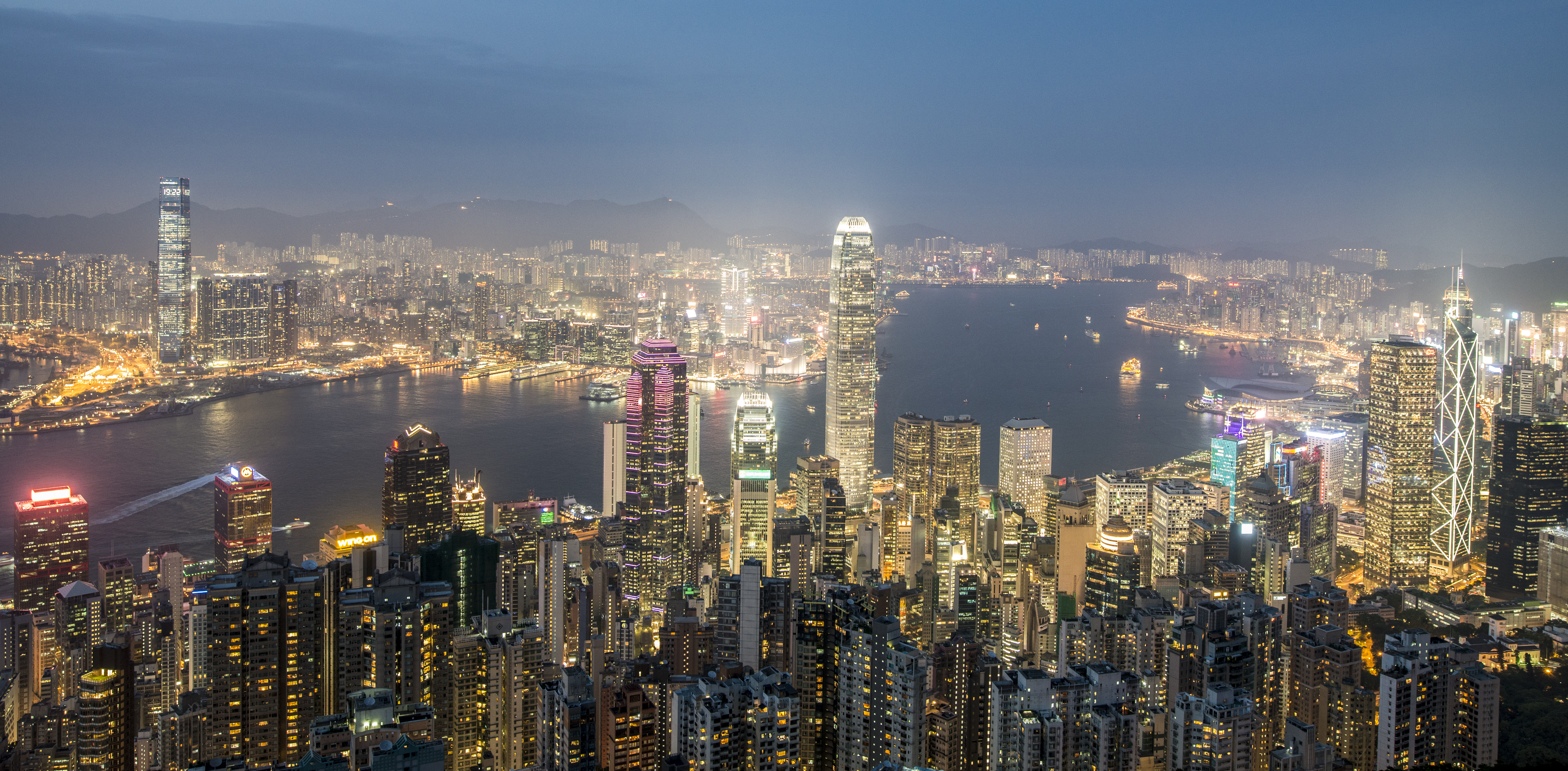 Hong Kong Island, Victoria Harbopur and Kowloon as seen from view point on Lugard Road at the top of Victoria Peak